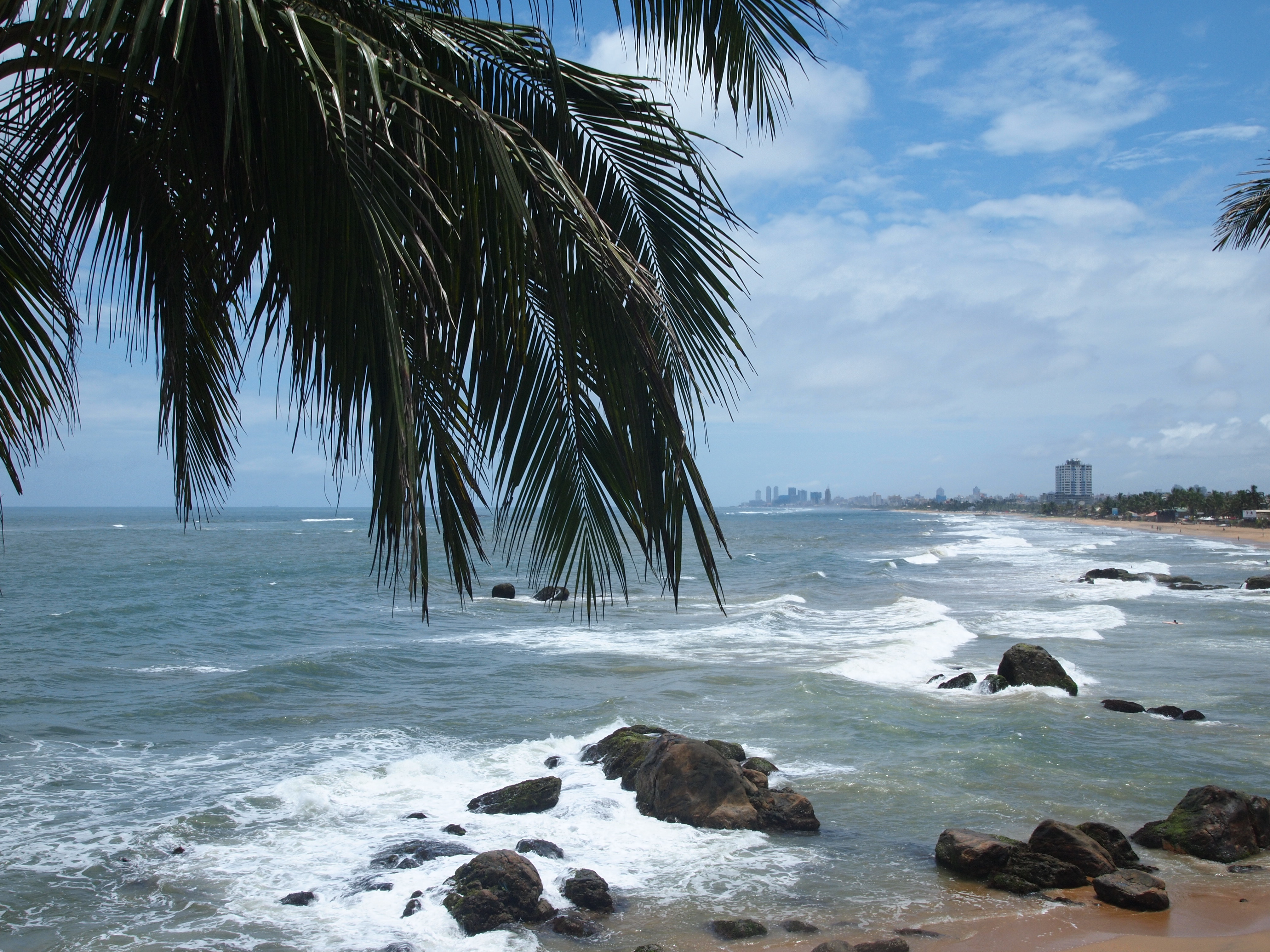 Coastal area Colombo, SL